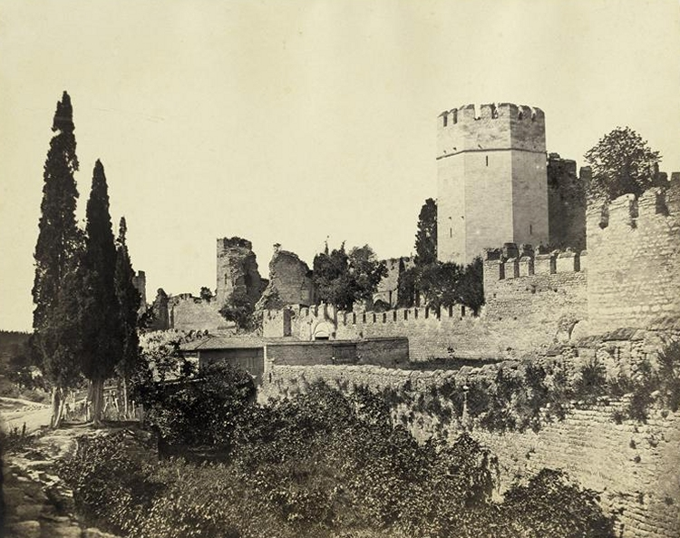 Constantinople